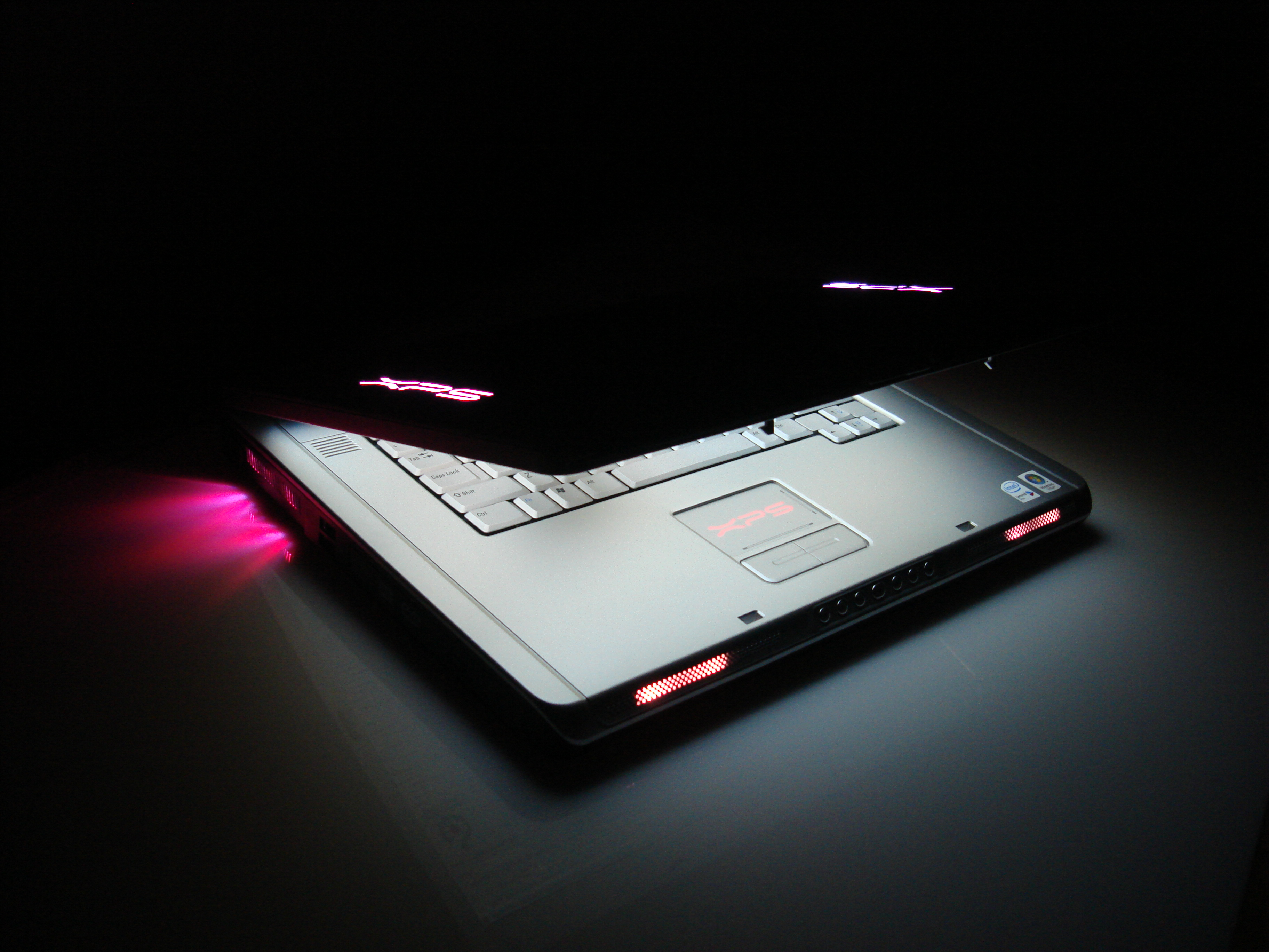 LED lights on the Dell XPS M1710 notebook. Speaker lights in front are the colour "coral", XPS lights on top of case are the colour "kunzite", and the fan lights at the sides are the colour "rhodolite". The screen was set to maximum brightness.